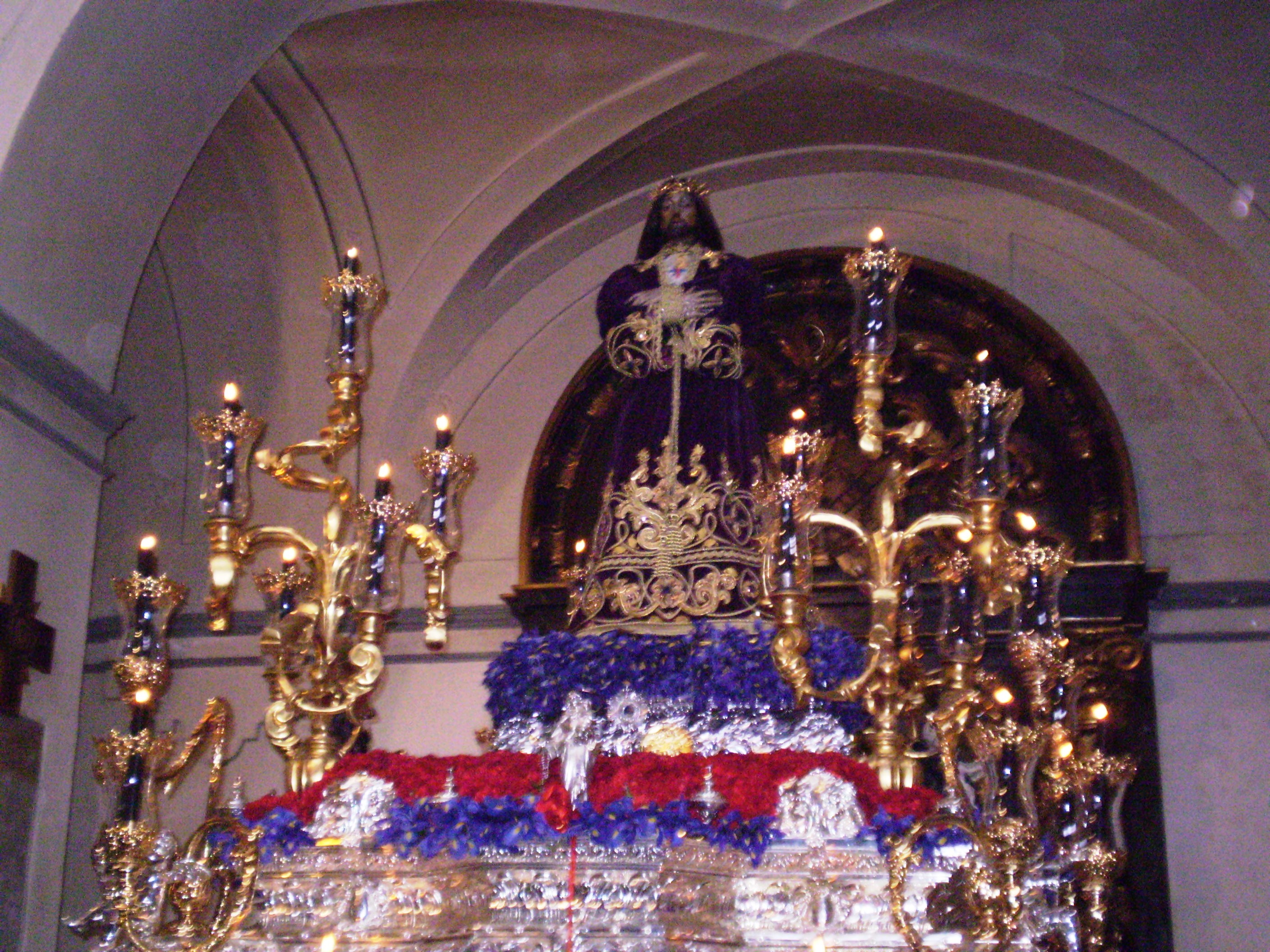 Image of Jesús el Pobre, in the Church of San Pedro el Viejo. Madrid, Spain